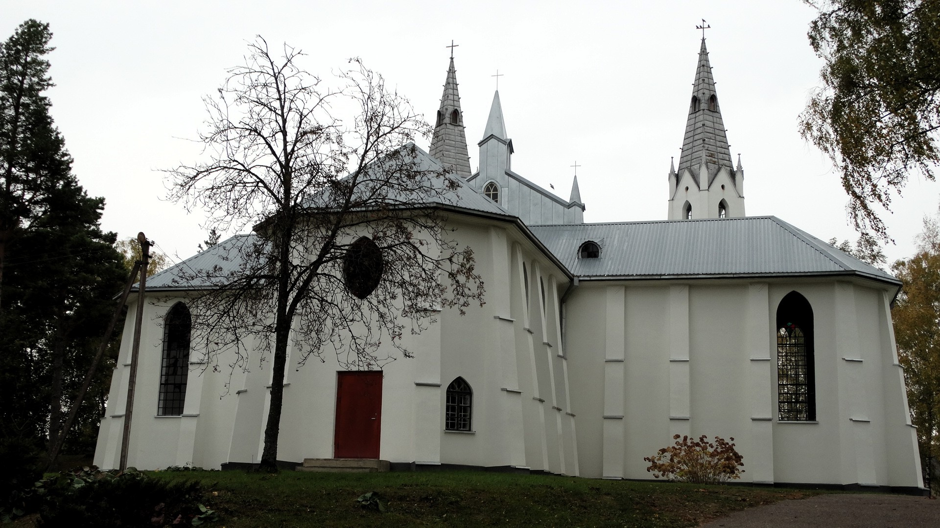 Roman Catholic Church, rear view, Krikštonys, Lazdijai district, Lithuania